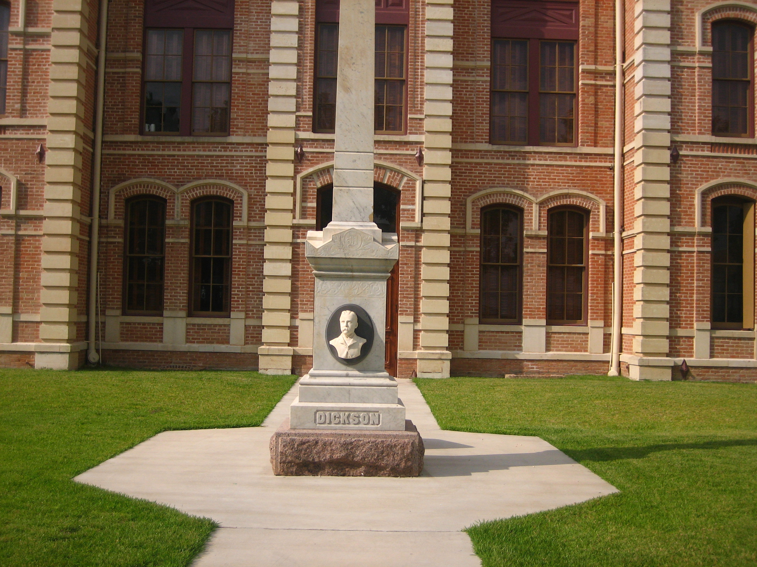 I took photo on July 31, 2008.Billy Hathorn (talk) 19:33, 7 September 2008 (UTC)